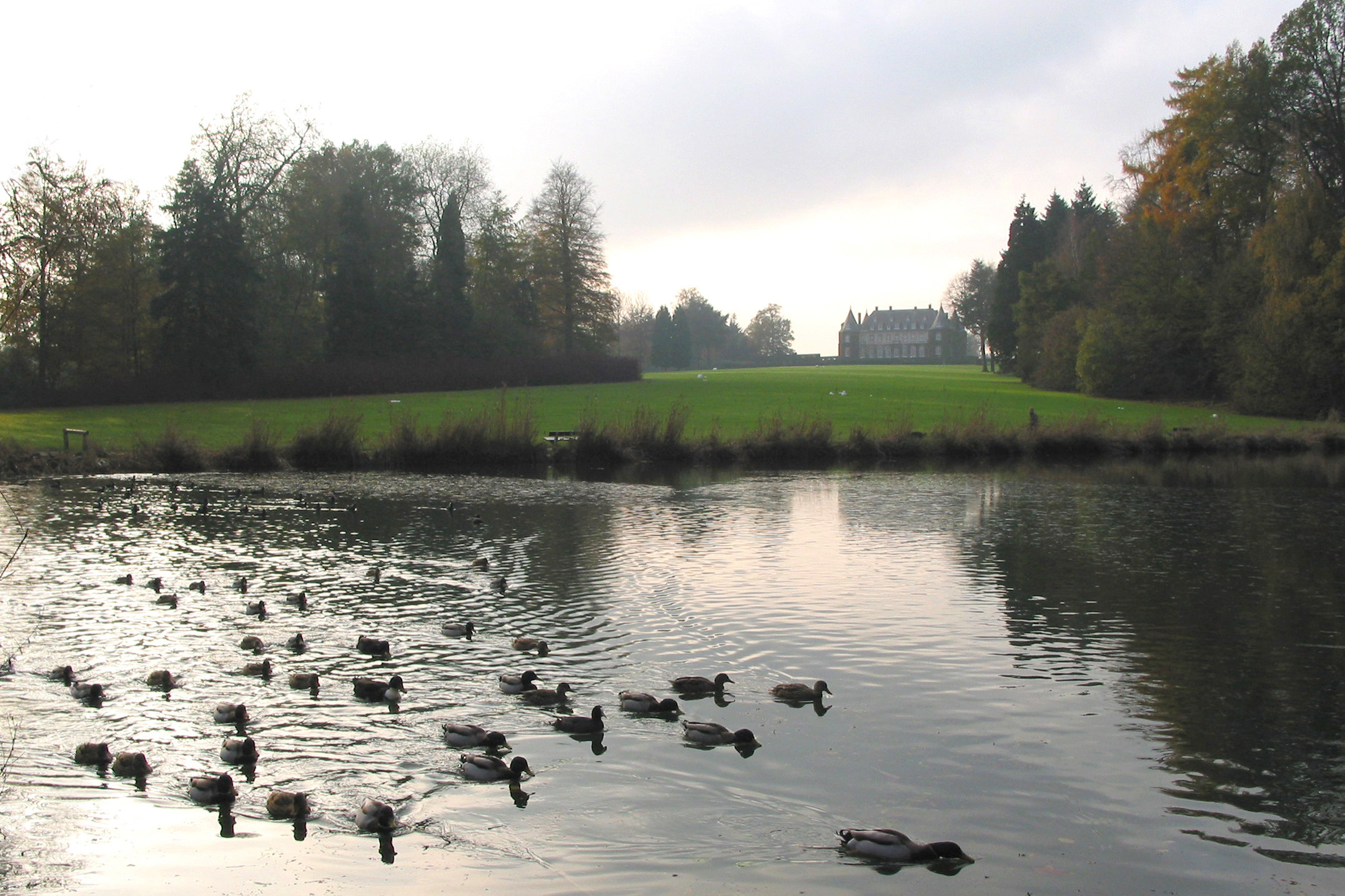 La Hulpe (Belgium), the pond of De la Longue Queue and the Solvay castle.